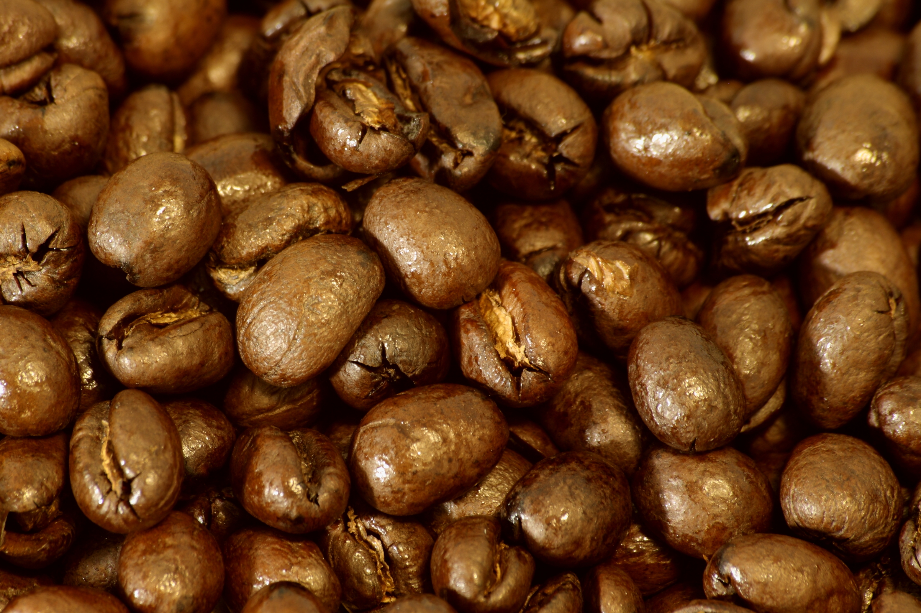 Peaberry (caracoli) arabica coffee beans, from a can of "Limited Edition Peaberry coffee from El Salvador", from Trader Joe's, a medium roast.